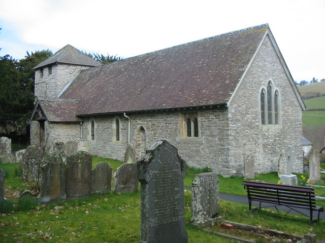 St Dubricius church, Gwenddwr The church of St Dubricius in the hamlet of Gwenddwr. Taken on a family history tour of the photographer's ancestral home.